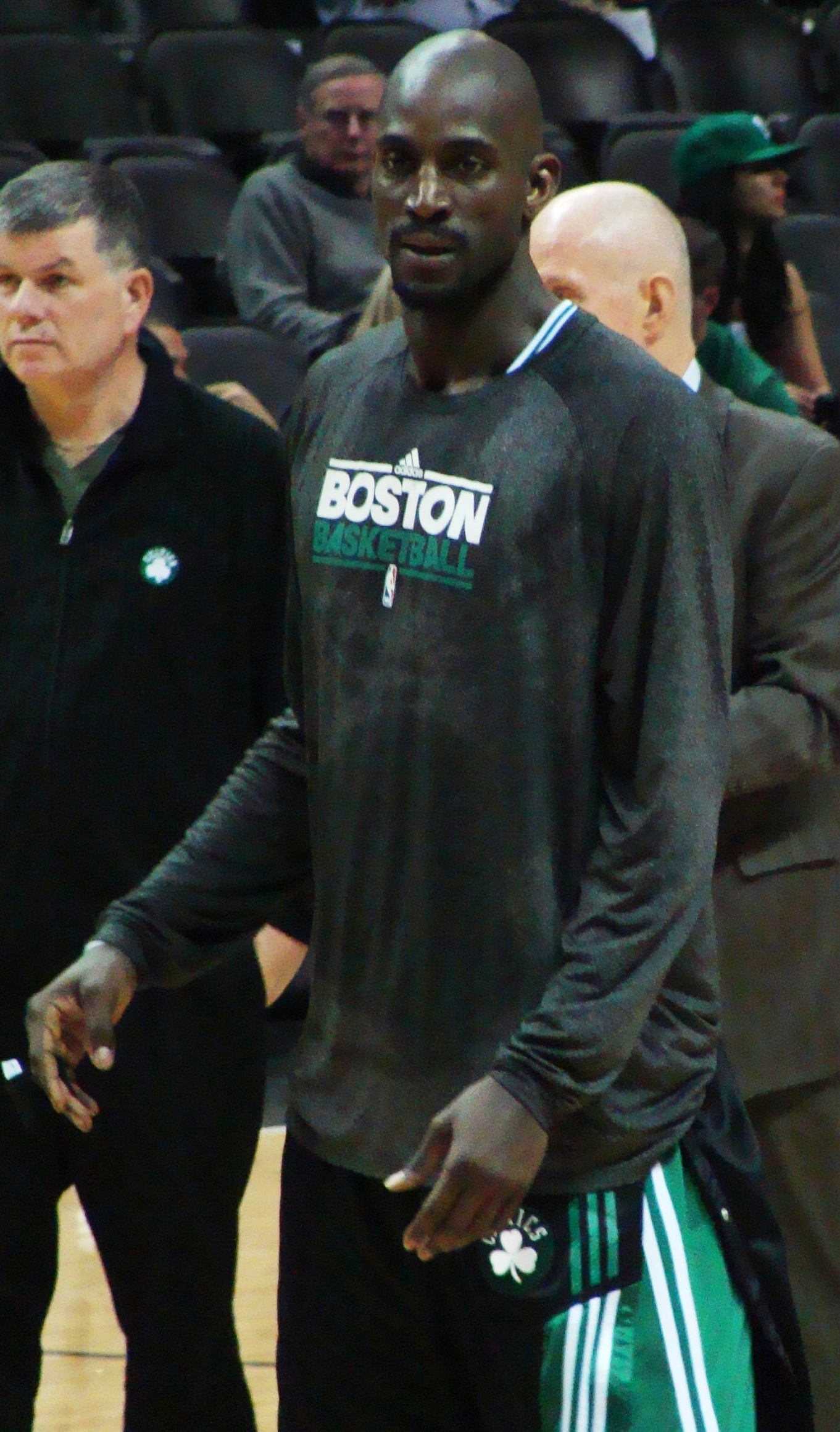 Kevin Garnett preparing to play the 2nd half against the San Antonio Spurs in 2011.